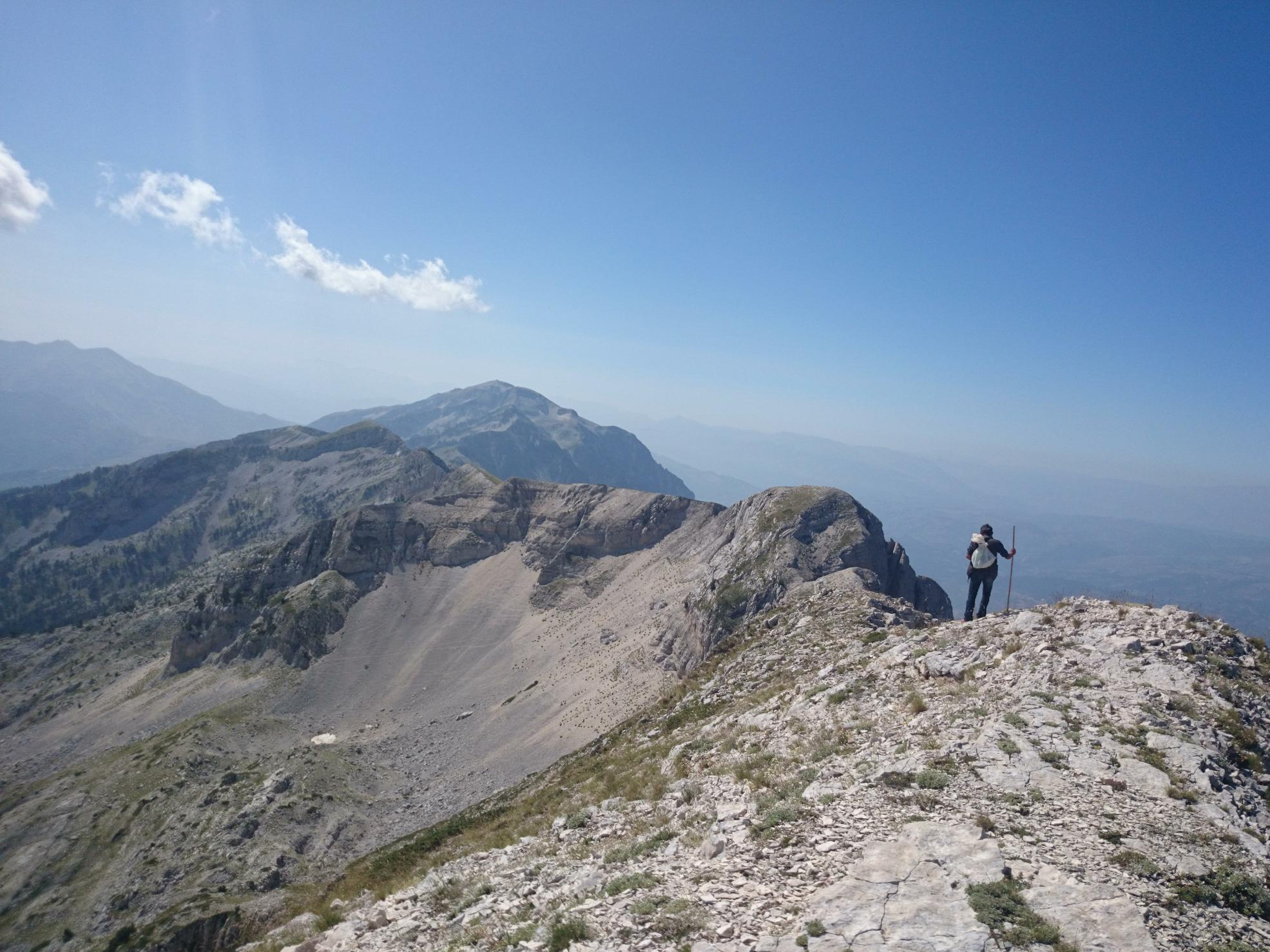 A man on Mount Tomorr, Albania, near peak Çuka e Partizanit during a tour collecting mountain tea